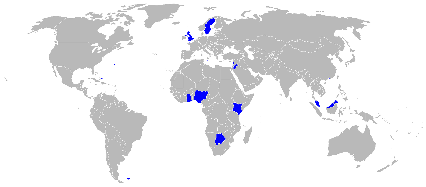 Military operators of the Scottish Aviation Bulldog. Own work, derivative of File:BlankMap-World.png.